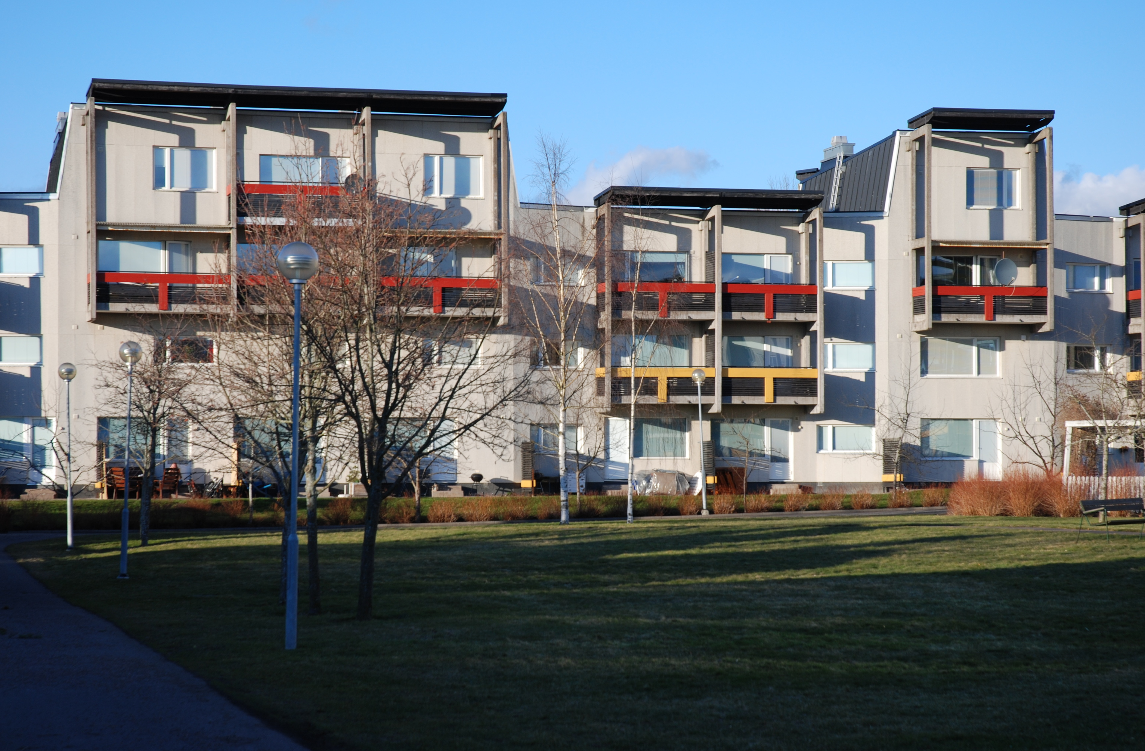 Residential area Brittgården, Tibro. Sweden, constructed 1956-59 and designed by architect Ralph Erskine